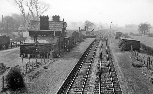 Broxton Station (closed, ?converted). View southward, towards Whitchurch; ex-London & North Western (Chester) Tattenhall Junction - Whitchurch line. The passenger service had ceased on 16/9/57, so the station was closed - and seems to have been converted to a dwelling, but was open for goods until the line was closed completely on 4/11/63.